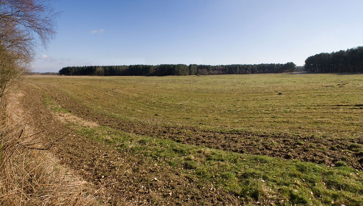 A hollow created by a collapsed pingo after the last ice age. This large depression is in a farmer's field next to the Great Eastern Pingo Trail near to the village of Stow Bedon in Norfolk, England. The surrounding area contains many similar depressions and small ponds.